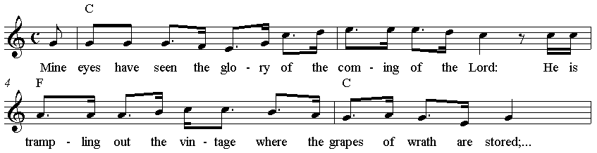 "The Battle Hymn of the Republic" melody beginning Created by Hyacinth using Sibelius and Paint. Source: van der Merwe, Peter (1989). Origins of the Popular Style: The Antecedents of Twentieth-Century Popular Music. Oxford: Clarendon Press. ISBN 0193161214. Category:Music images Slika:Battle Hymn of the Republic beginning.PNG